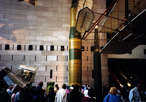 Photo of US National Air and Space Museum interior